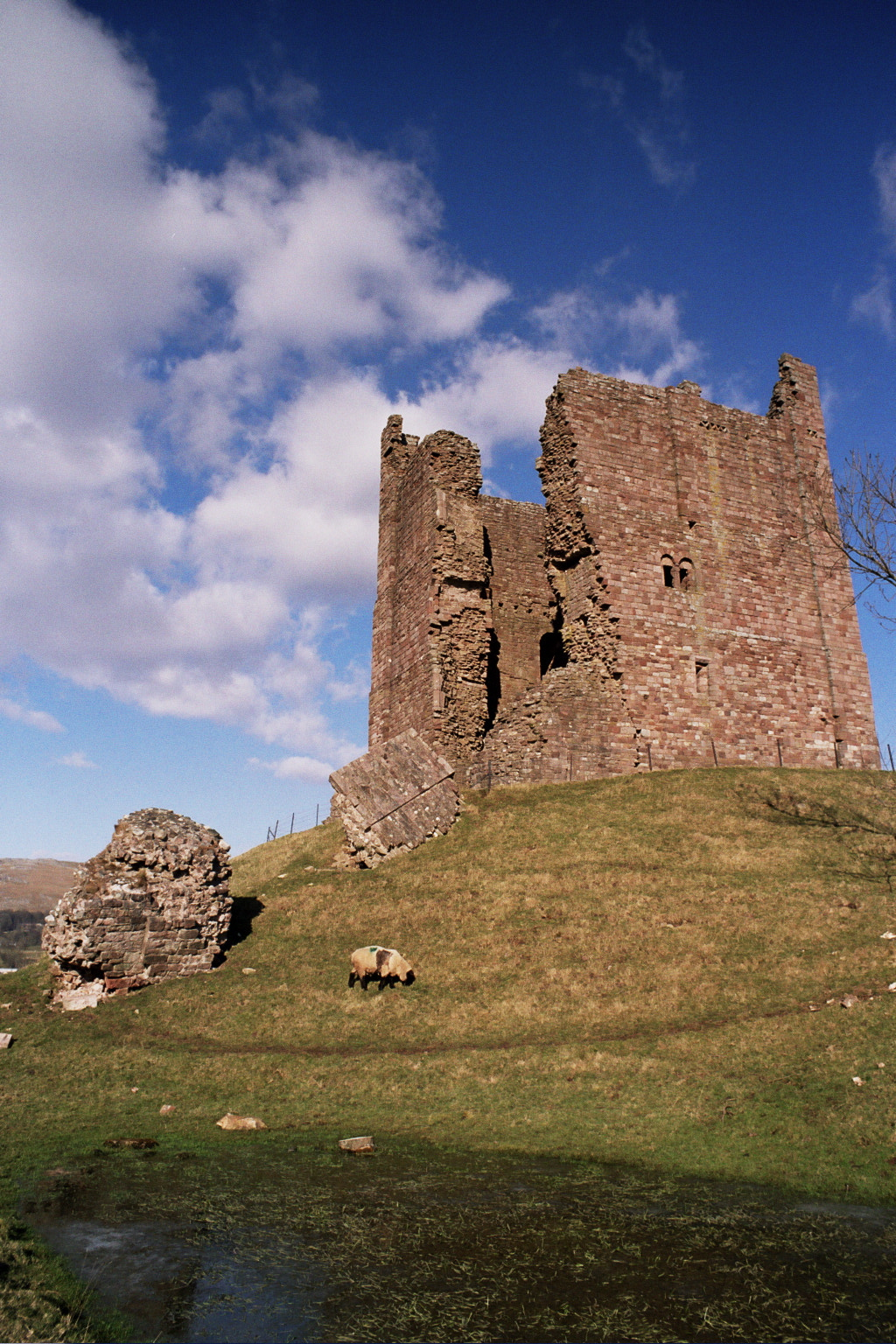 Brough Castle, in Brough, Cumbria, England. View of the keep from the south west. taken by Supergolden.